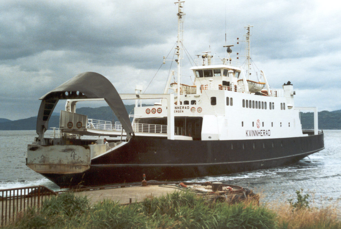 MF Kvinnheard, built in 1978.